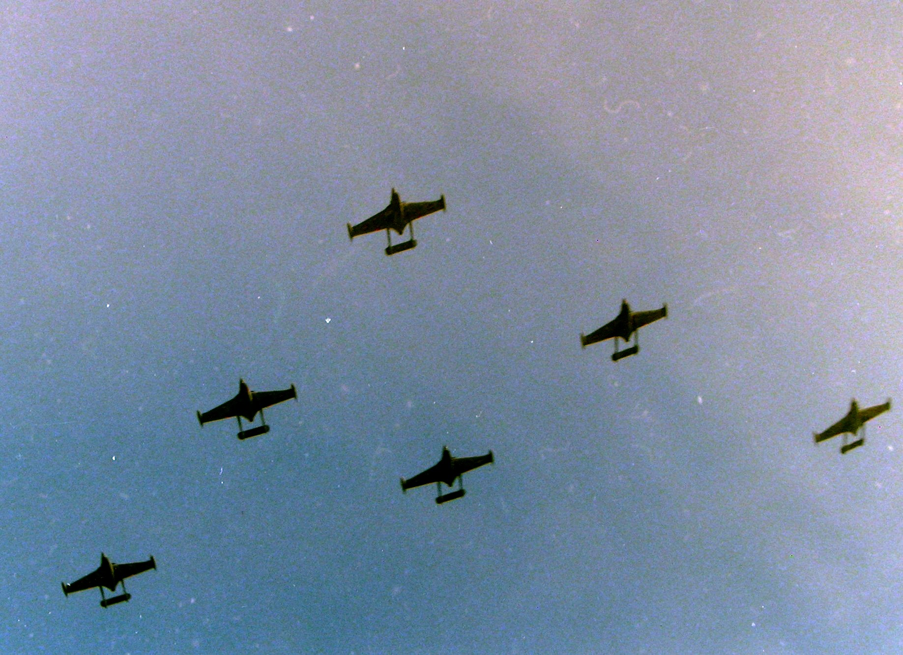 Patrouille Suisse at display in Interlaken